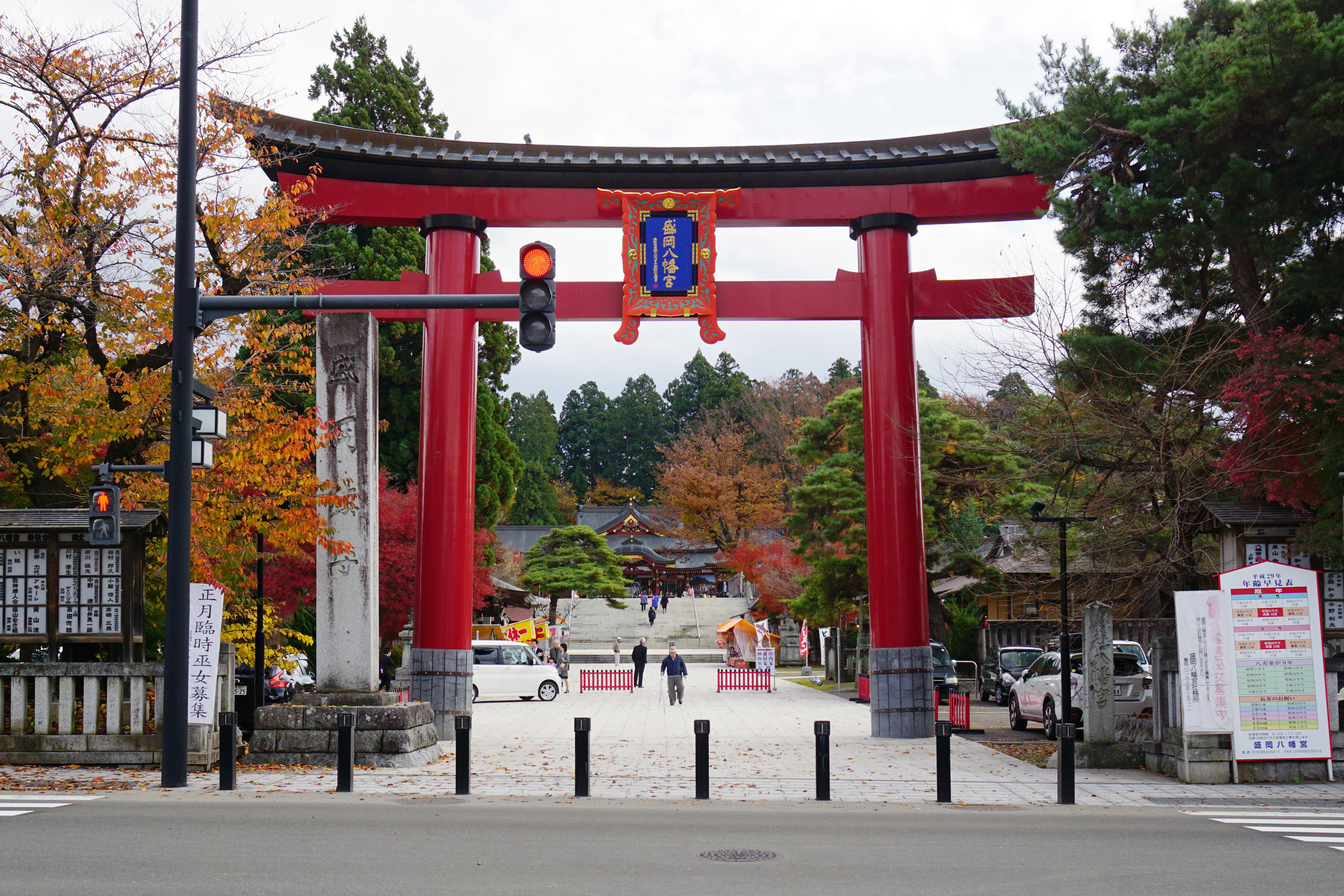 Morioka Hachimangū in Morioka, Iwate prefecture, Japan